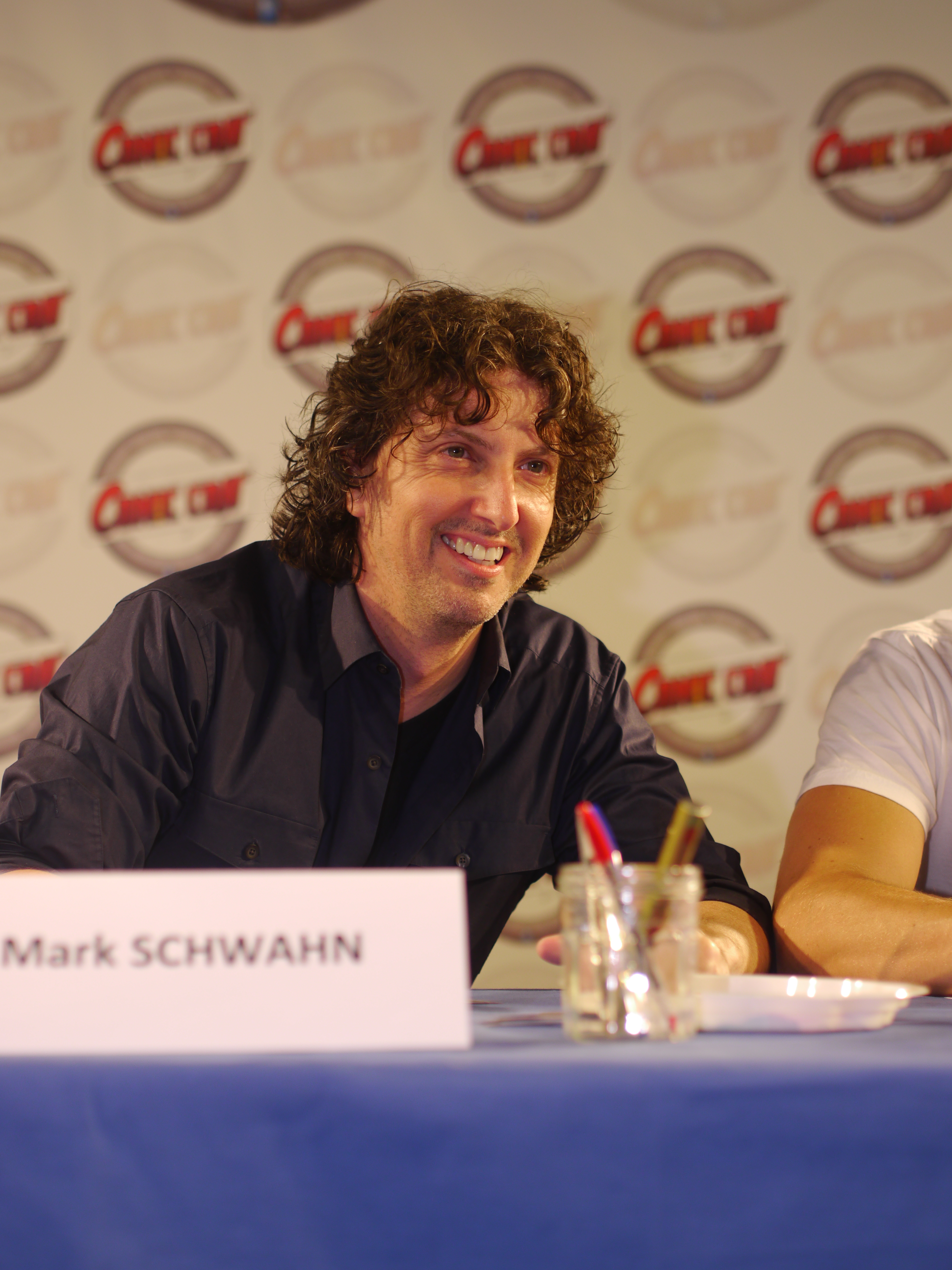 Marc Schwahn - Comic Con - Samedi - 2012-0707- P1410704.jpg